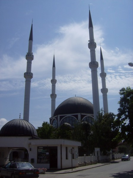 Hamzibeys mosque in Sanski Most, Bosnia and Hercegovina, Europe